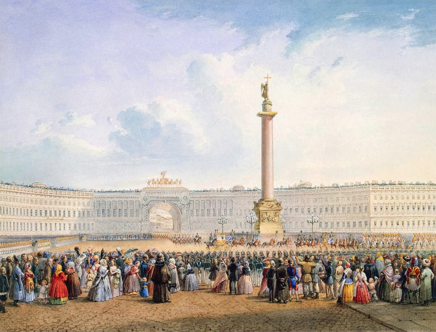 A watercolor painting of Palace Square, Saint Petersburg by Vasily Sadovnikov, painted c. 1847. The painting is now displayed at the Hermitage Museum.